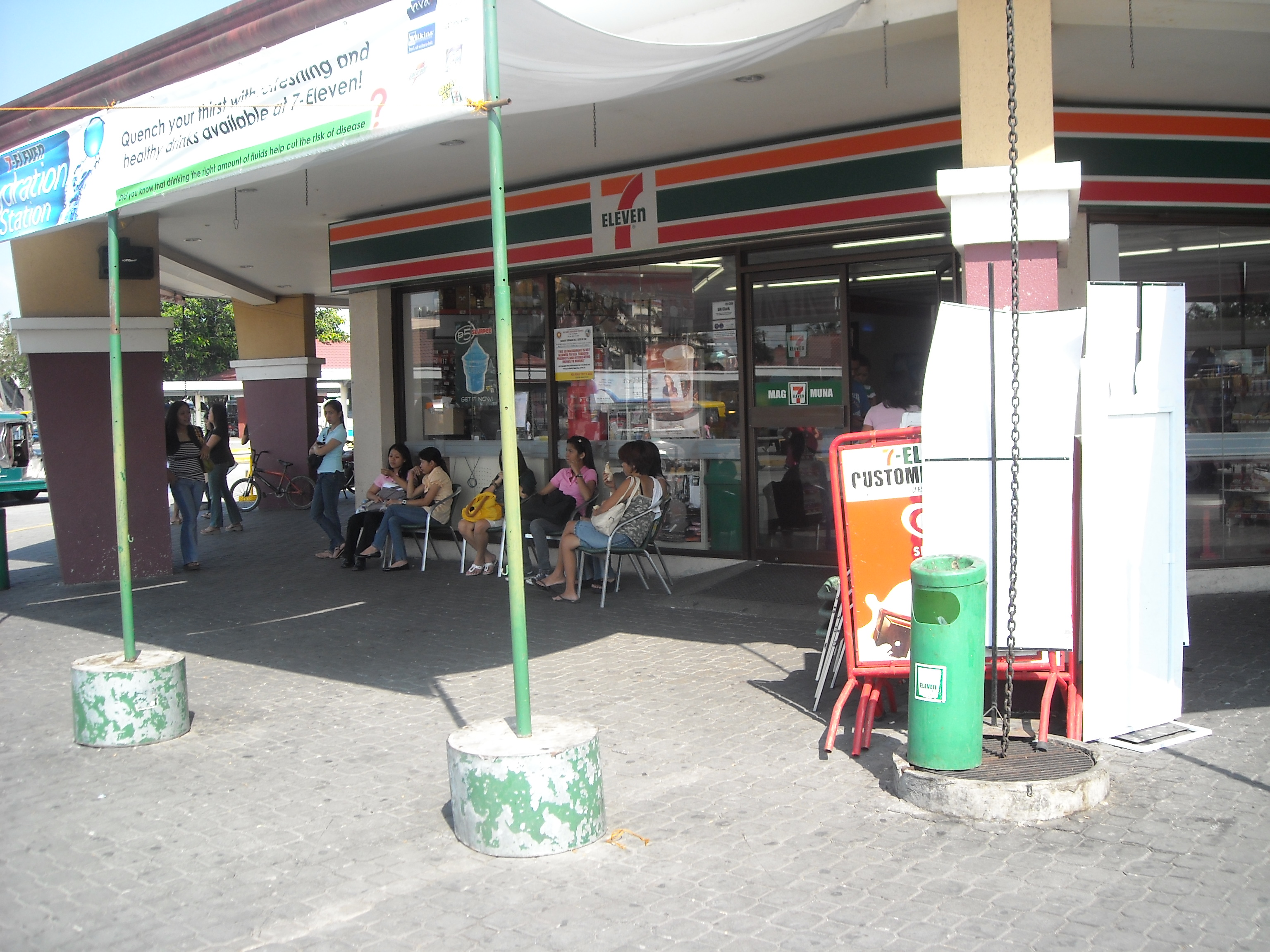 A typical 7-Eleven store in Angeles City.